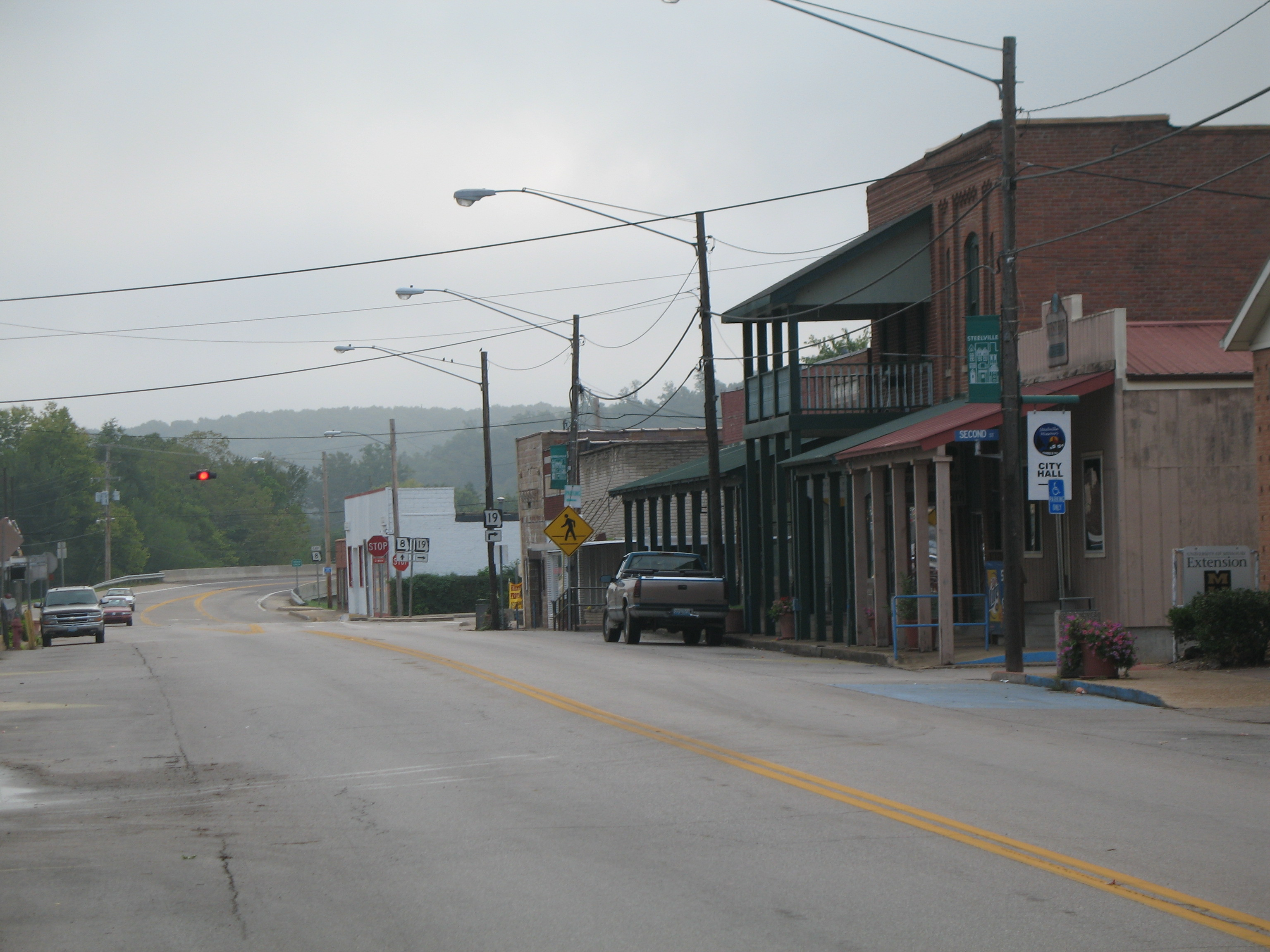 Downtown Steelville. Photo by poster in September 2007.